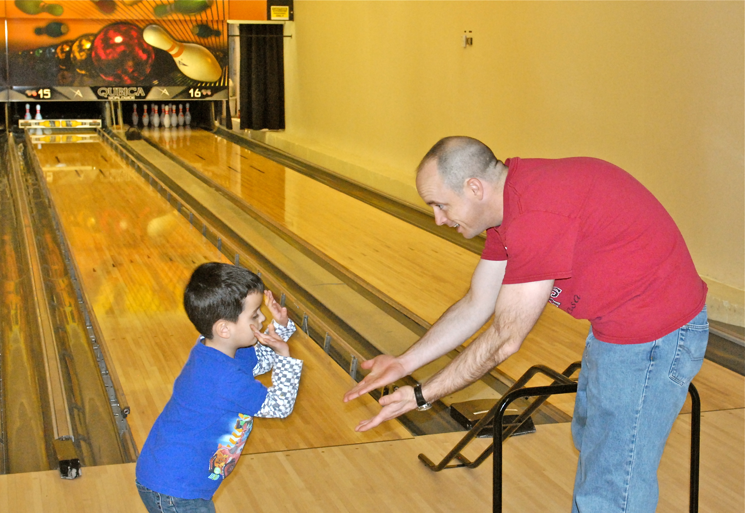 Strike Zone Bowling Center